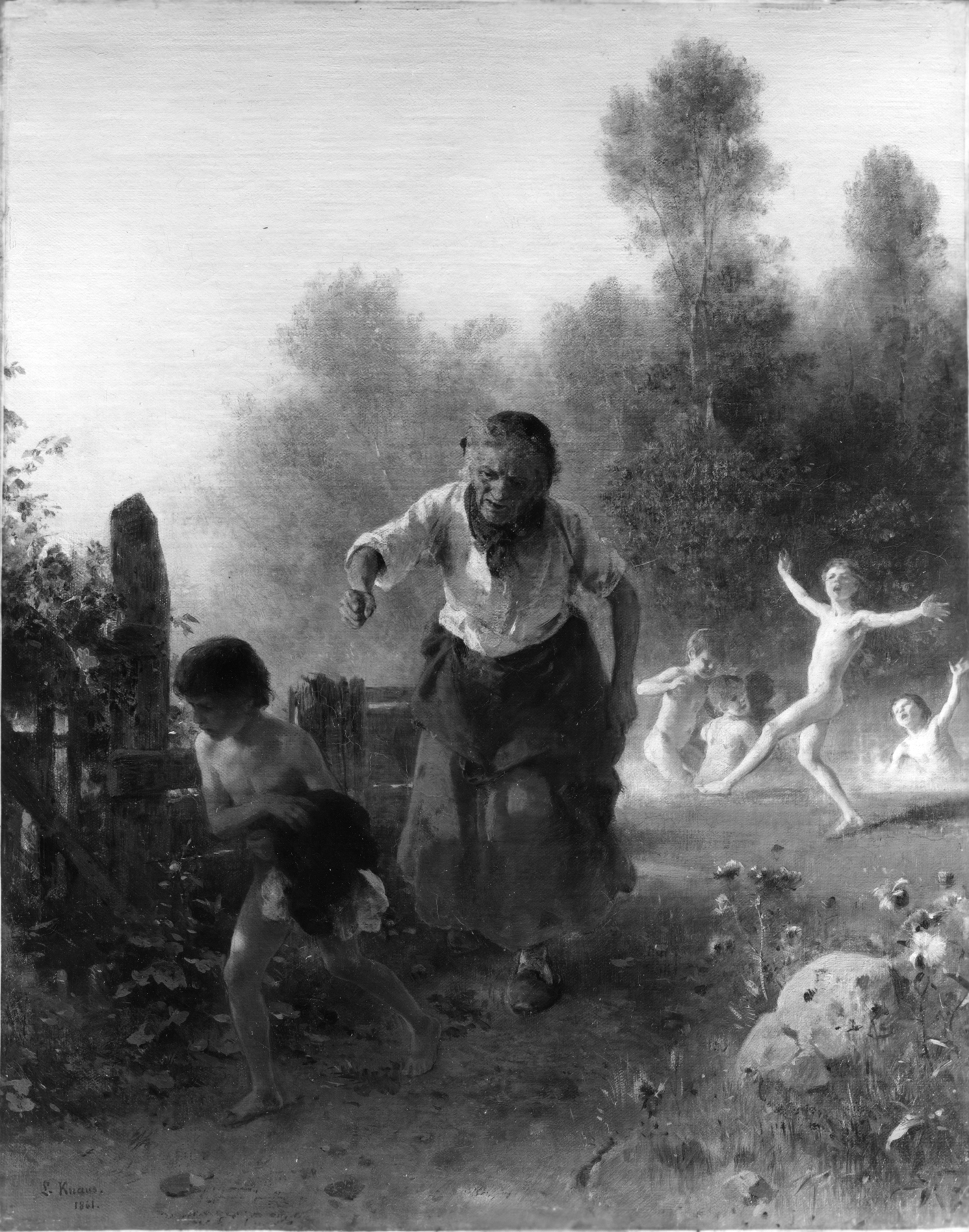 An elderly teacher pursues a naked young boy who flees, carrying his clothes over his arm. Behind, in a shallow pond, several youths are cavorting, one of whom prances beside the water jeering at the departing figure. A warm evening light permeates the scene. The model for the old teacher was used by Knaus in several works including "The Village Sorceress" (1885) and "The Potato Gathering" (1889).